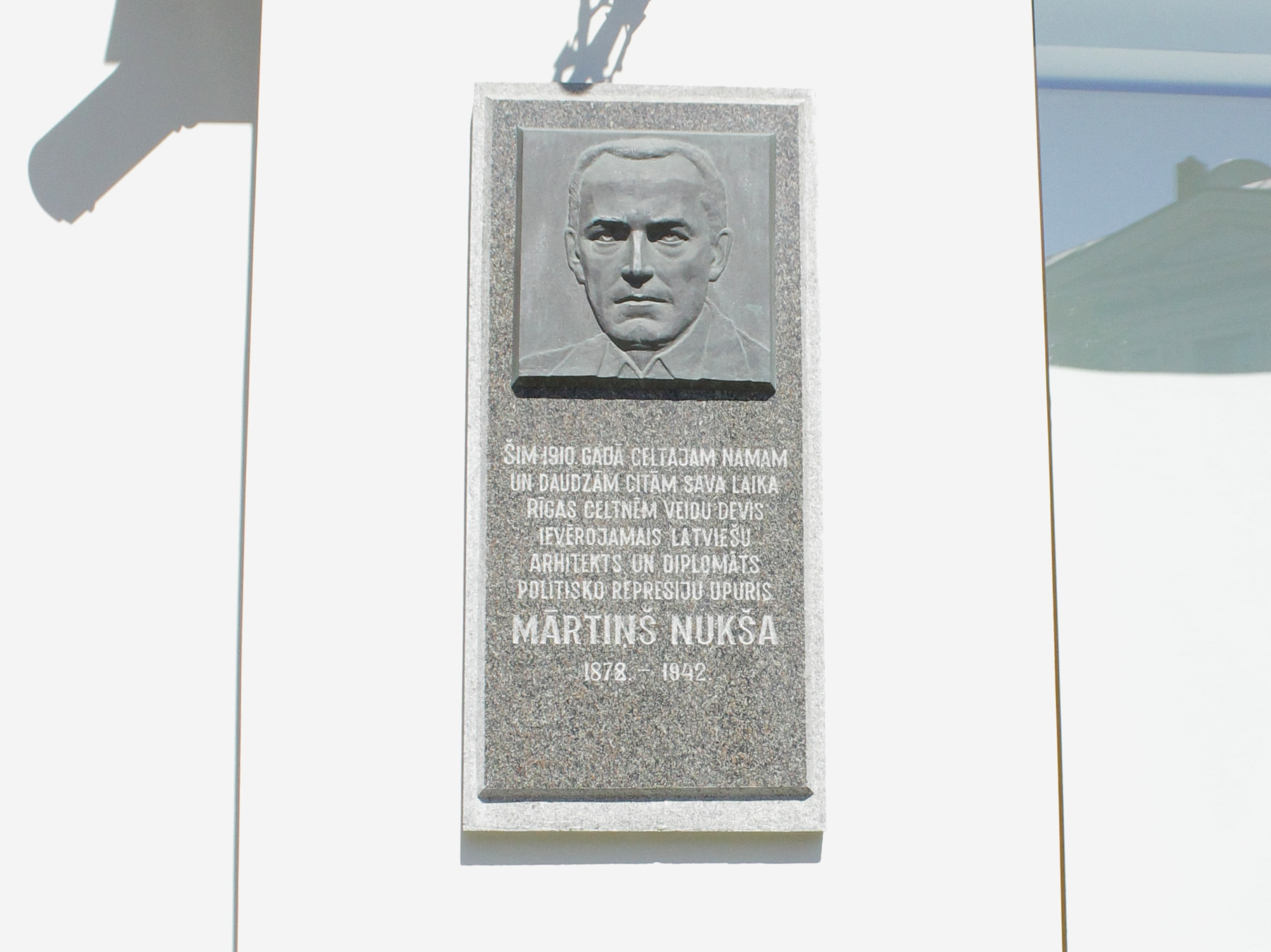 Commemorative plaque, Riga, Latvia.